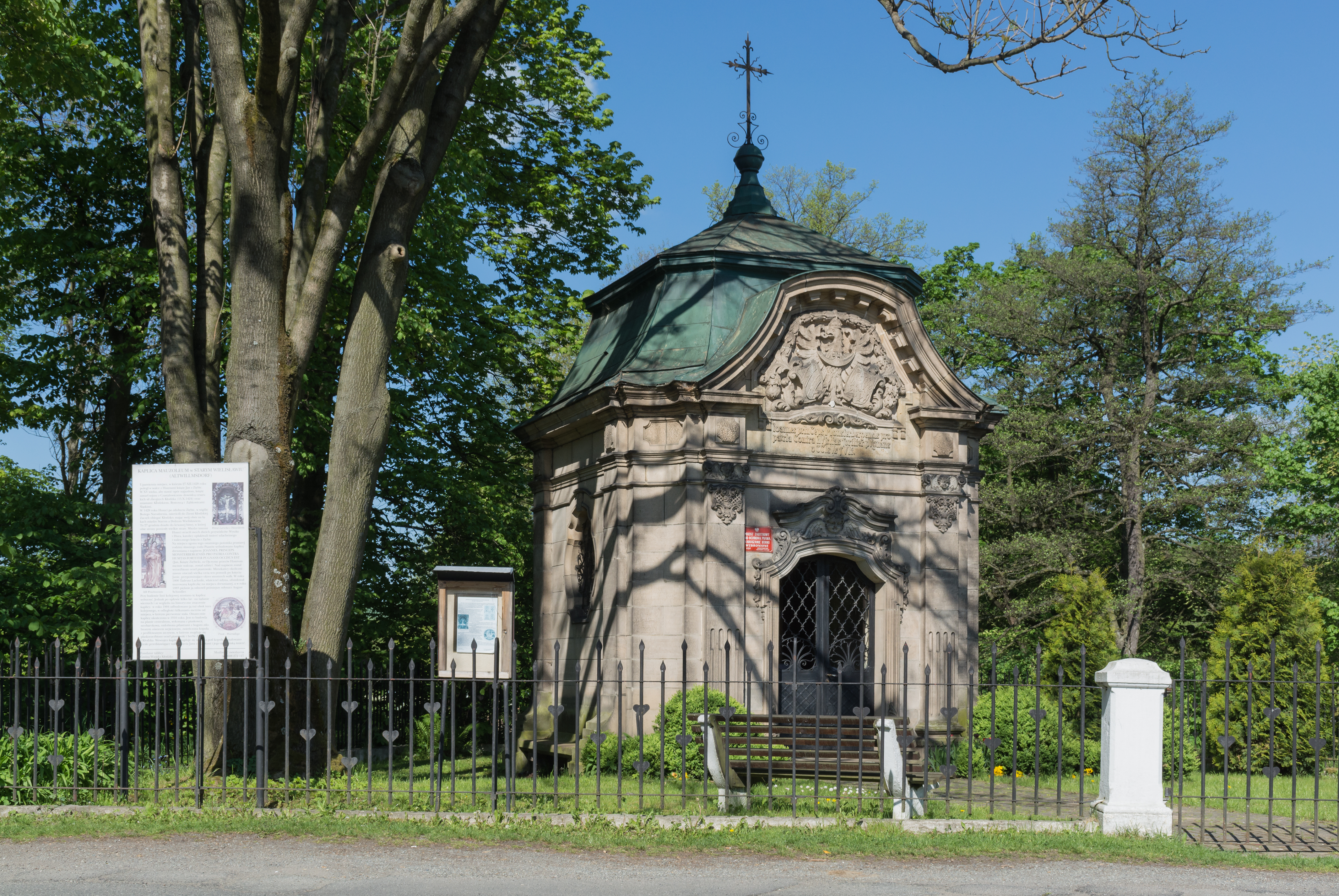 Jan Ziębicki mausoleum in Stary Wielisław